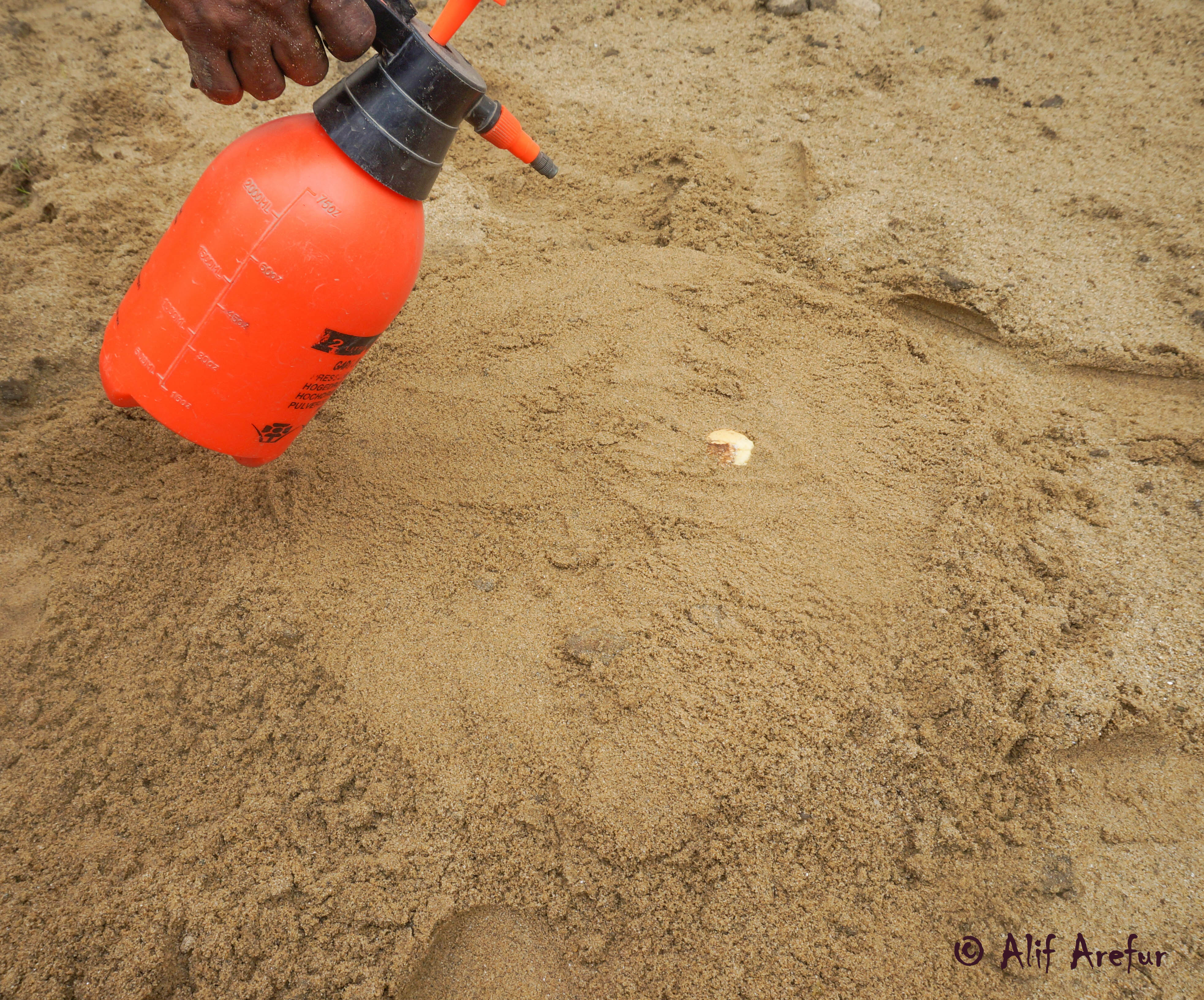 Water spray on sand seedbed at Malik's Farm